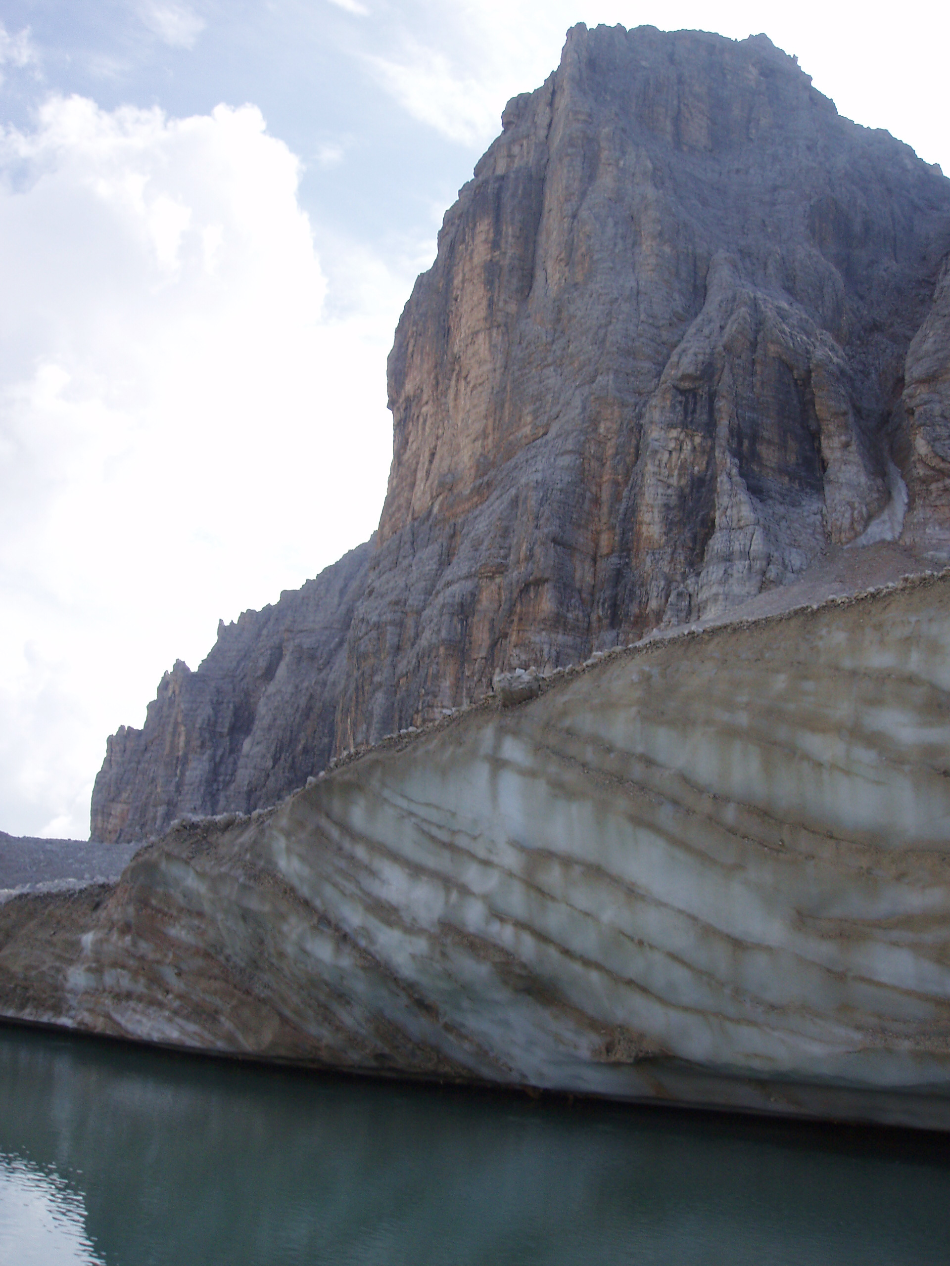 The glacier lake Lech Dragon on the Dolomites